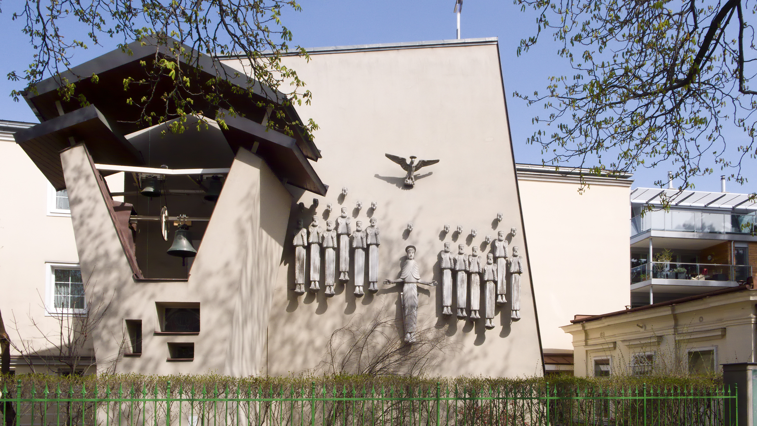 Church Pallottihaus (Wien) in Vienna Hietzing